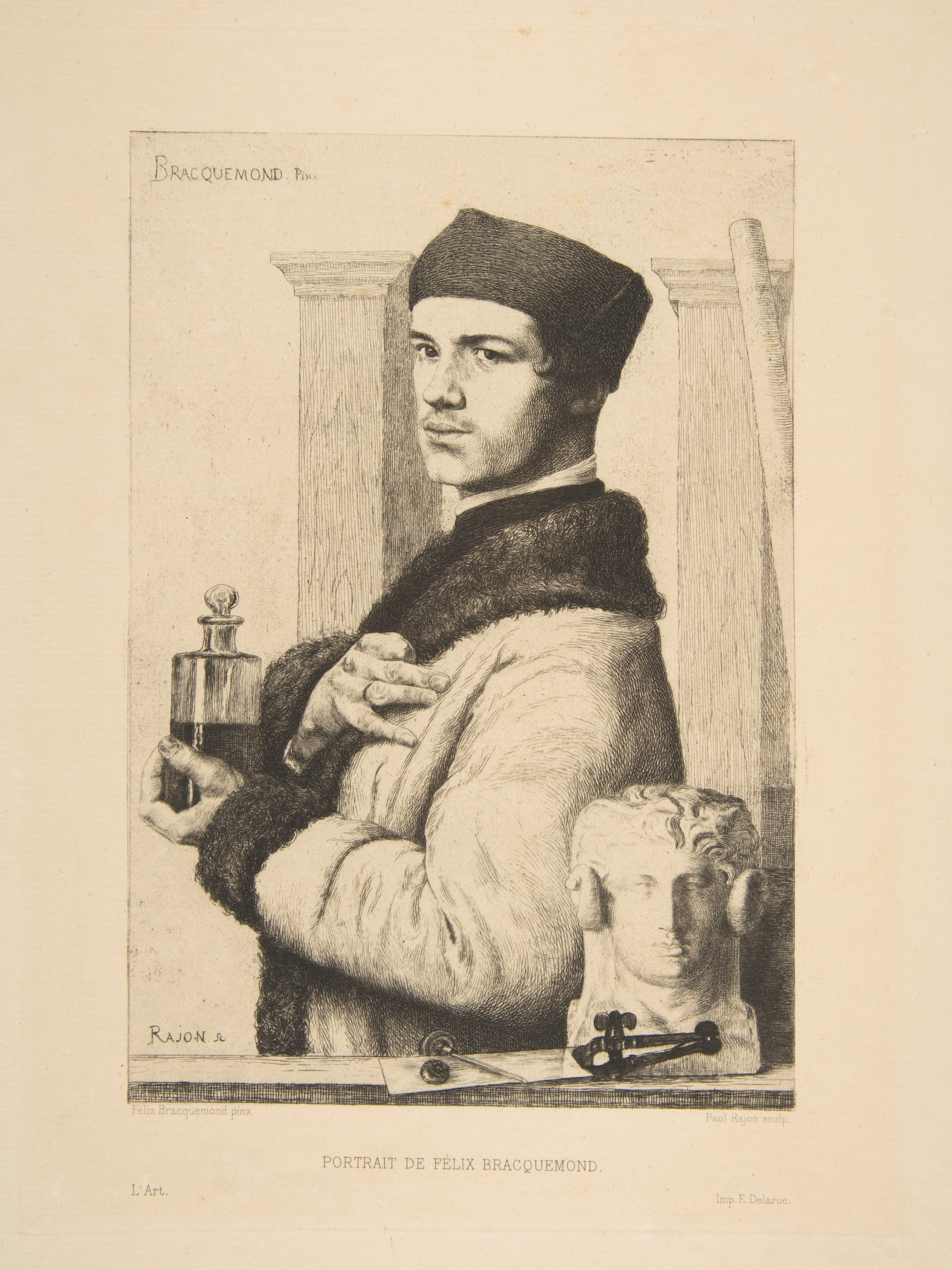 Print; Prints